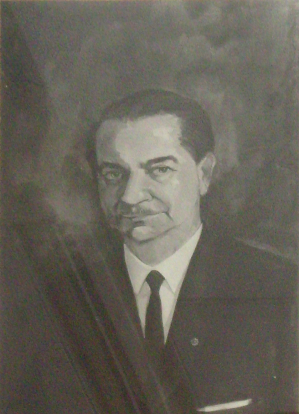 Paul Gheliongy Photograph at Ain Shams Univ Hospital Paul Gheliongy Central Library